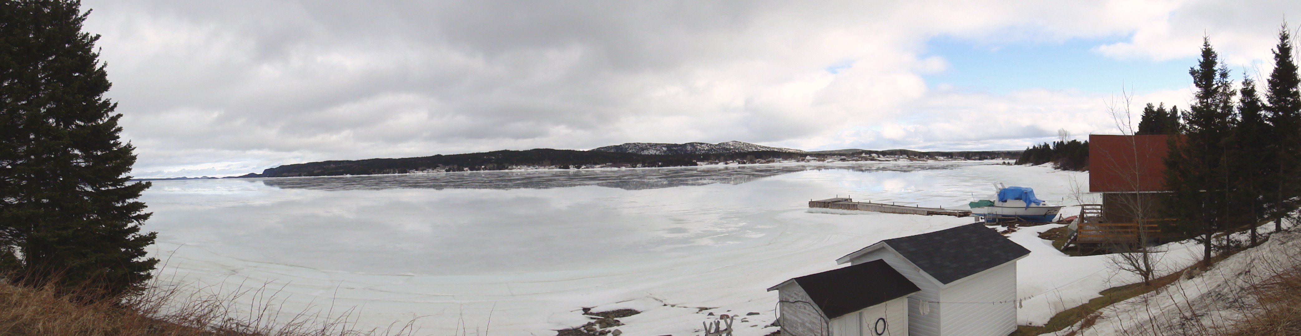 Panorama of Laurenceton